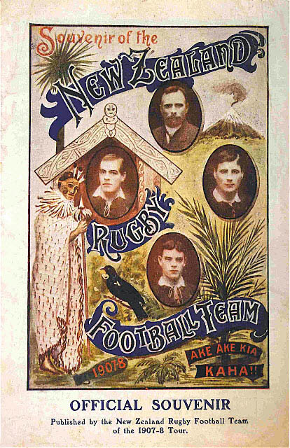 Official souvenir of the New Zealand rugby league team that toured Australia and Great Britain in 1907-08. Printed edition published by the NZRFT